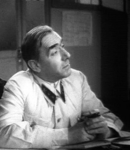 Кадр из фильма Аринка